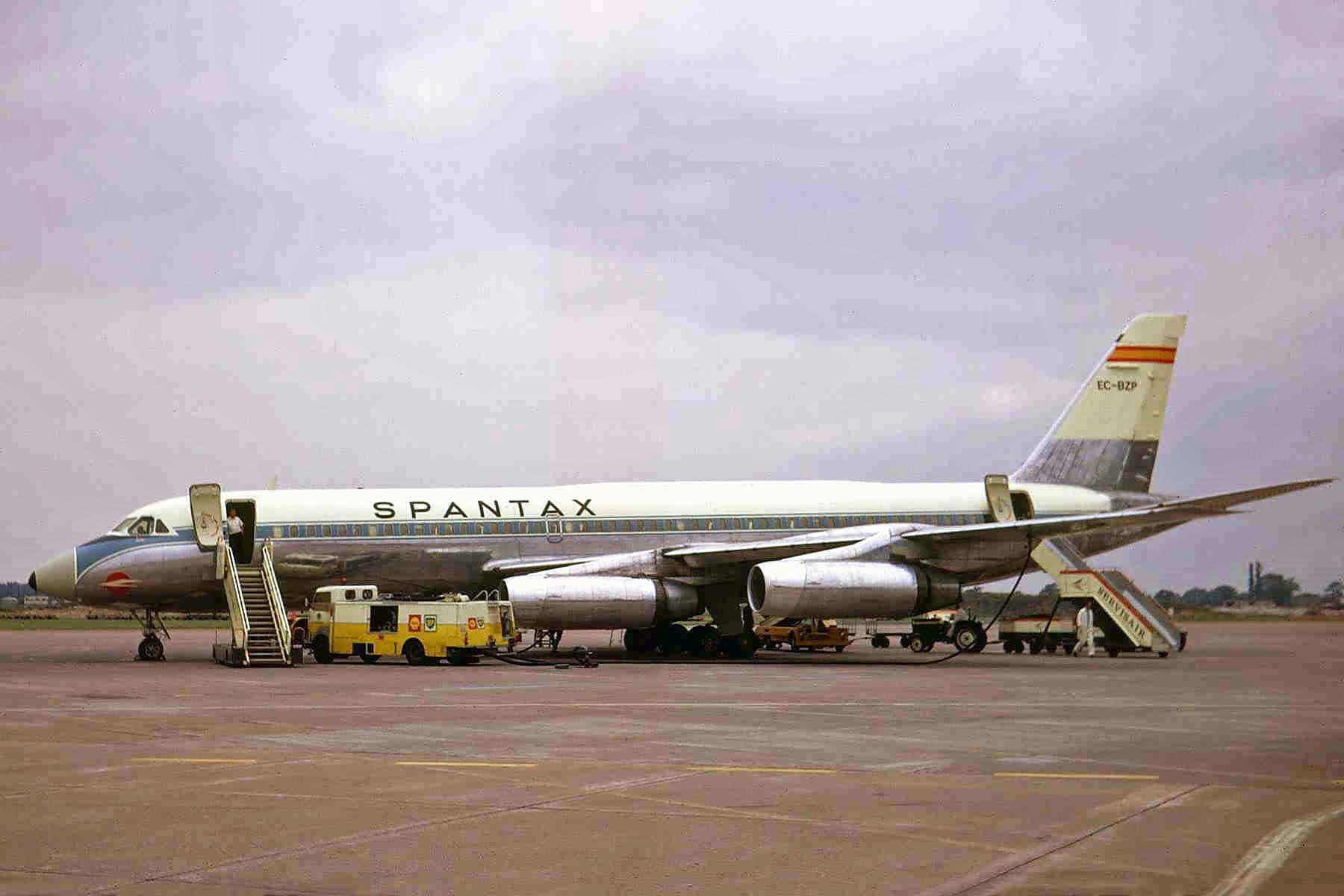 More than anything, I remember the smoke trails on approach and departure...